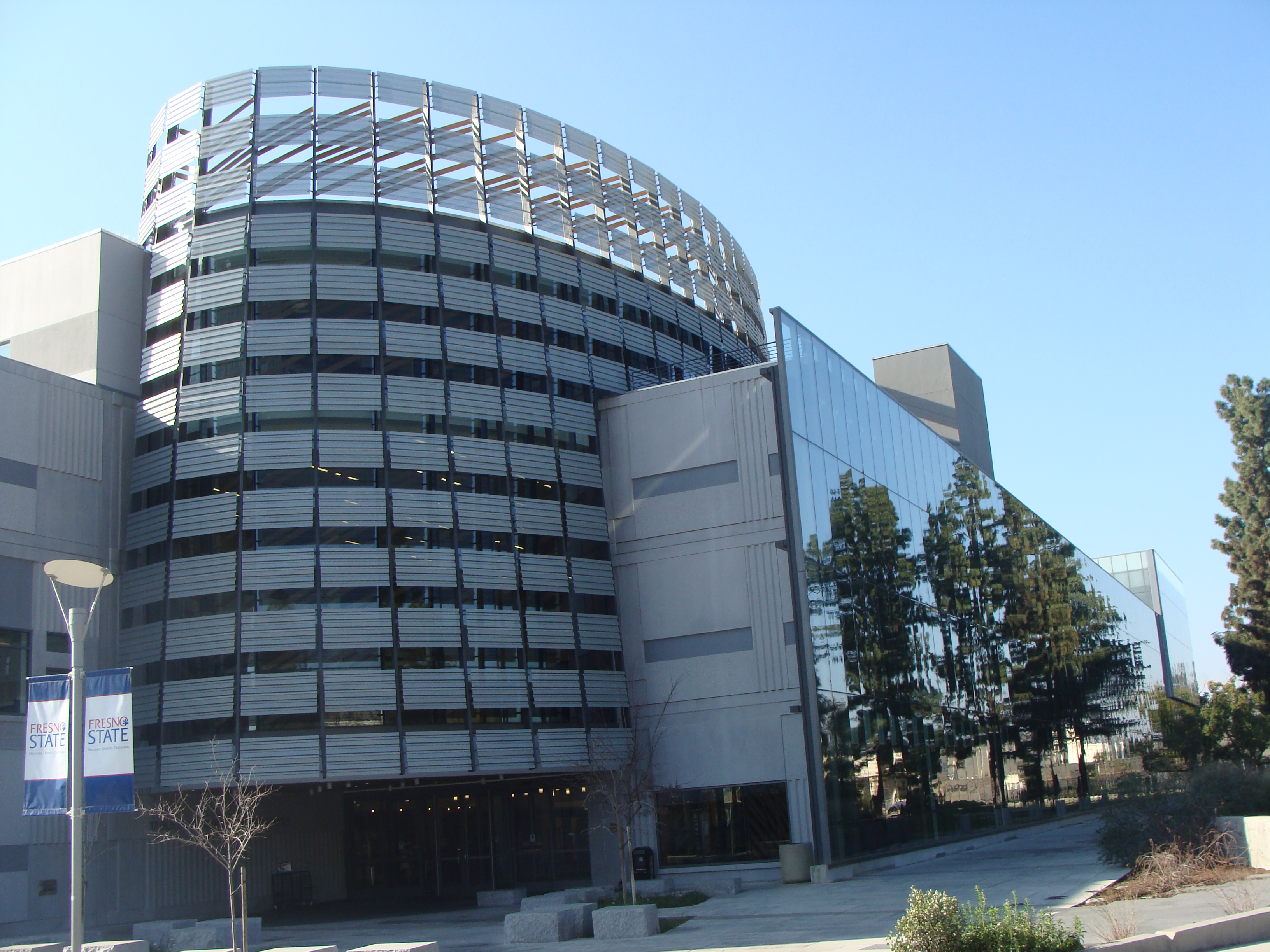 California State University, Fresno. Henry Madden Library.